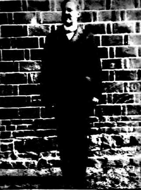 Photograph of William Cunningham, 1921